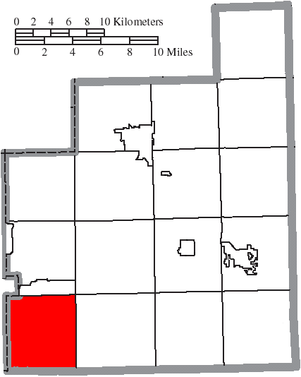 Map of the municipal and township boundaries of Geauga County, Ohio, United States, as of the 2000 census, with the location of Bainbridge Township highlighted. Township borders are shown only in unincorporated areas in order to differentiate incorporated and unincorporated areas more clearly.